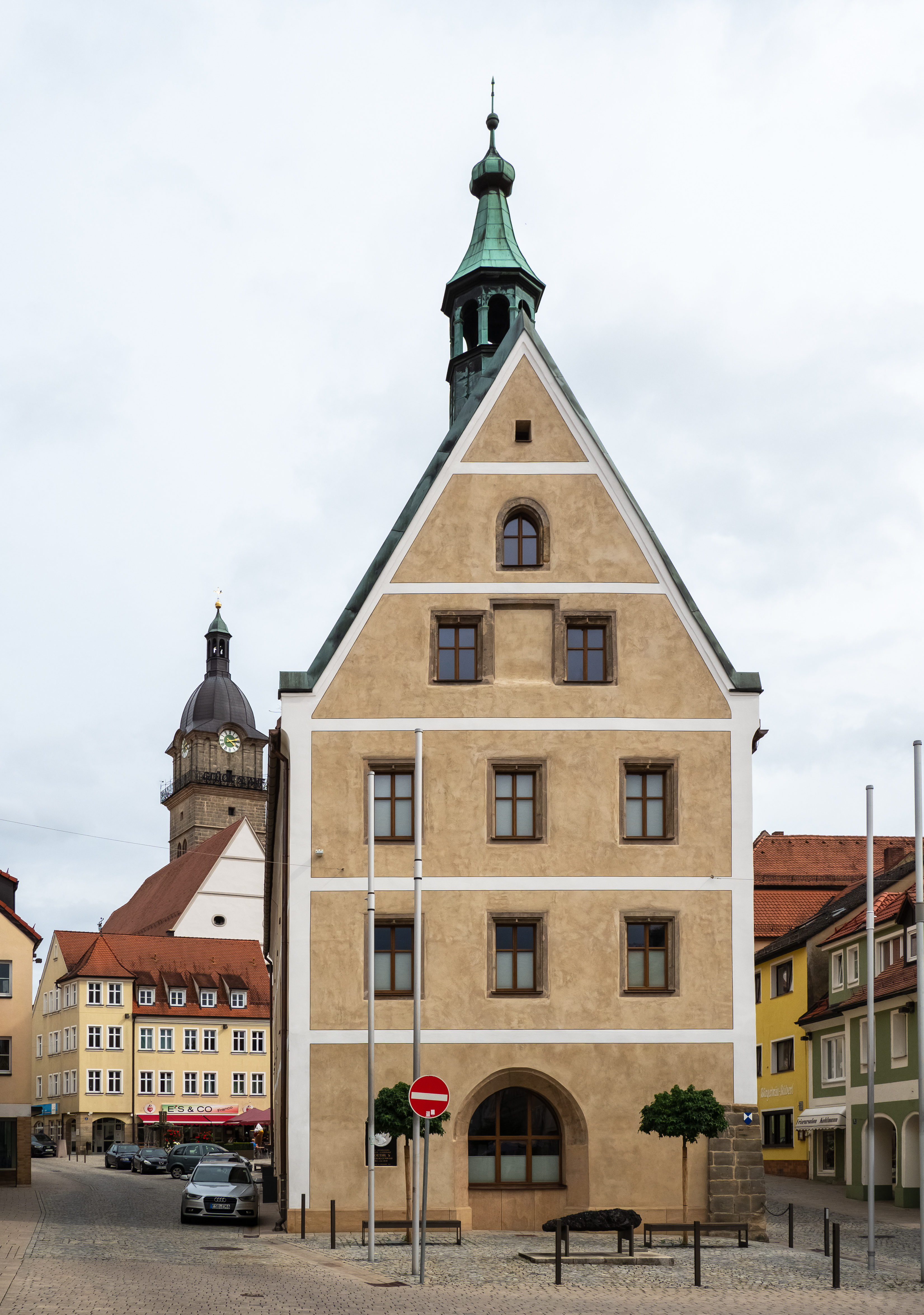 Town hall in Auerbach in the Upper Palatinate